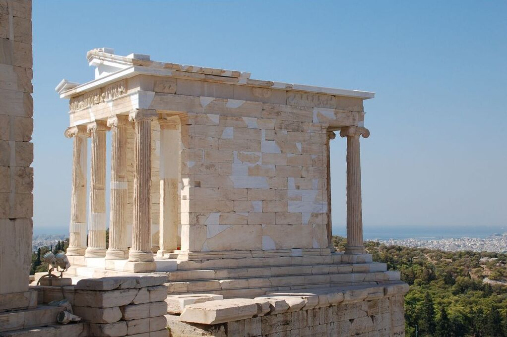 The temple of Athena Nike on the Acropolis of Athens. It was built in c. 410 BC. This picture was taken after the recent anastylosis which integrated spare parts of the temple, previously stored.